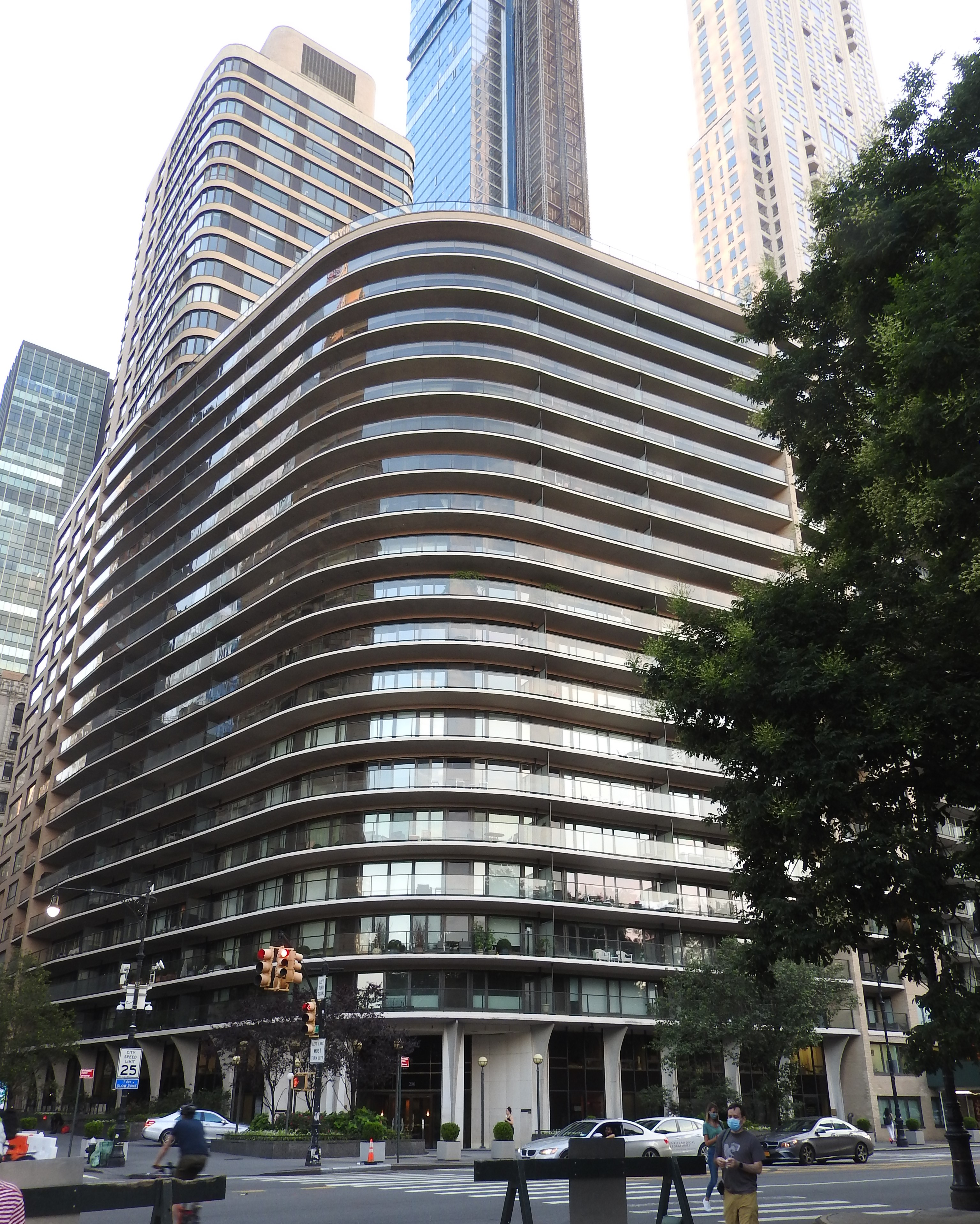 Looking southwest across 59th Street on a partly cloudy midday